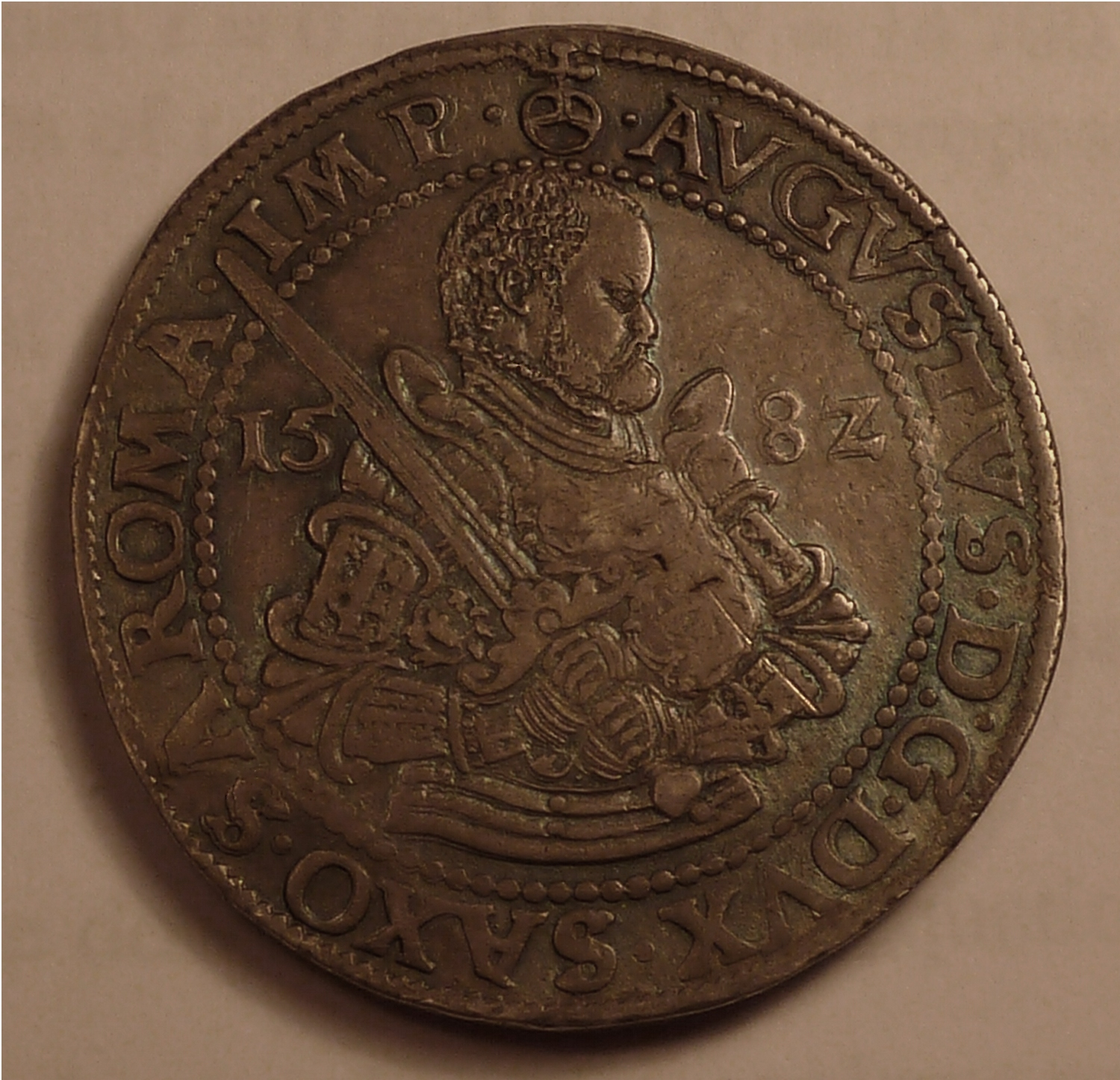 Saxony, Albertine line. Augustus (1526-1586), thaler, 1582. Mint of Dresden.